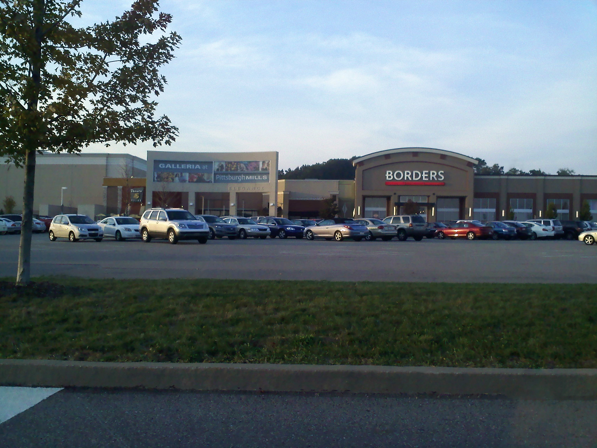 View of Entry 1 including Borders and Panera Bread.